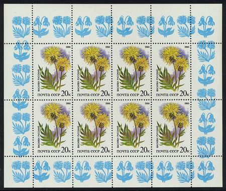 Stamp of the USSR, depicting Centaurea ruthenica plant.